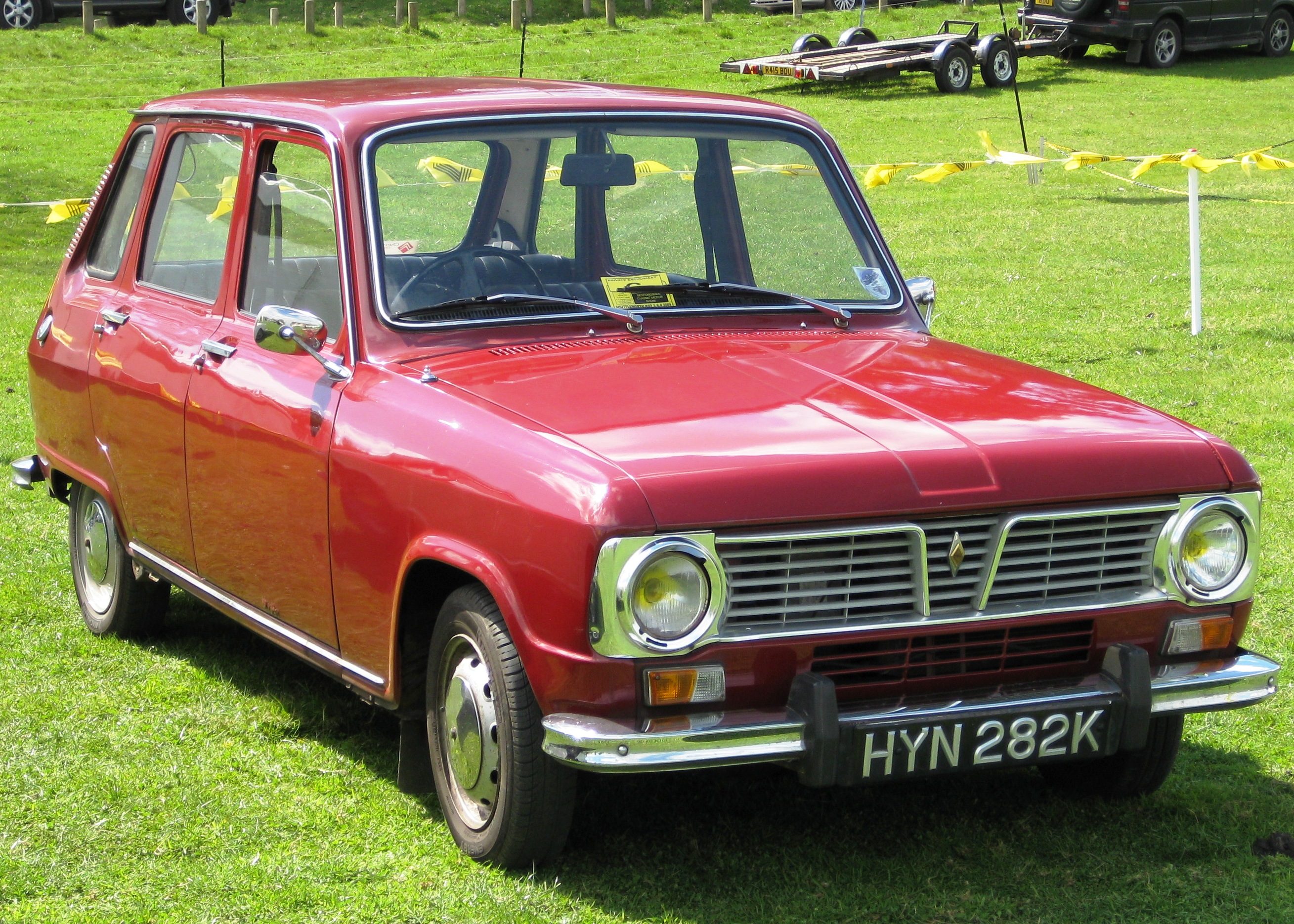 Renault 6 before the face lifts